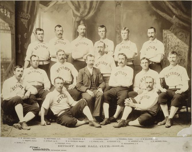 Photograph of the 1887 Detroit Wolverines baseball teamStanding, left to right: Charlie Bennett, Dan Brouthers, Sam Thompson, Charlie Ganzel, Larry Twitchell, Lady BaldwinSitting, left to right: Fatty Briody, Fred Dunlap, Bill Watkins, Deacon White, Ned Hanlon, Billy Shindle, Pretzels GetzienSeated on ground, left to right: Jack Rowe, Stump Weidman, Hardy RichardsonDetails: Briody, Fatty, 1858-1903; Bennett, Charlie, 1854-1927; Detroit Wolverines (Baseball team); Wiedman, Stump, 1861-1905; White, Deacon, 1847-1939; Brouthers, Dan, 1858-1932; Hanlon, Ned (Edward Hugh), 1857-1937; Ganzel, Charlie (Charles William), 1862-1914; Baldwin, Lady (Charles Busted), 1859-1937; Dunlap, Fred (Frederick C.), 1859-1902; Watkins, Bill (William Henry), 1858-1937; Richardson, Hardy, 1855-1931; Shindle, Billy, 1860-1936; Thompson, Sam, 1860-1922; Twitchell, Larry, 1864-1930; Getzien, Charlie, 1864-1932